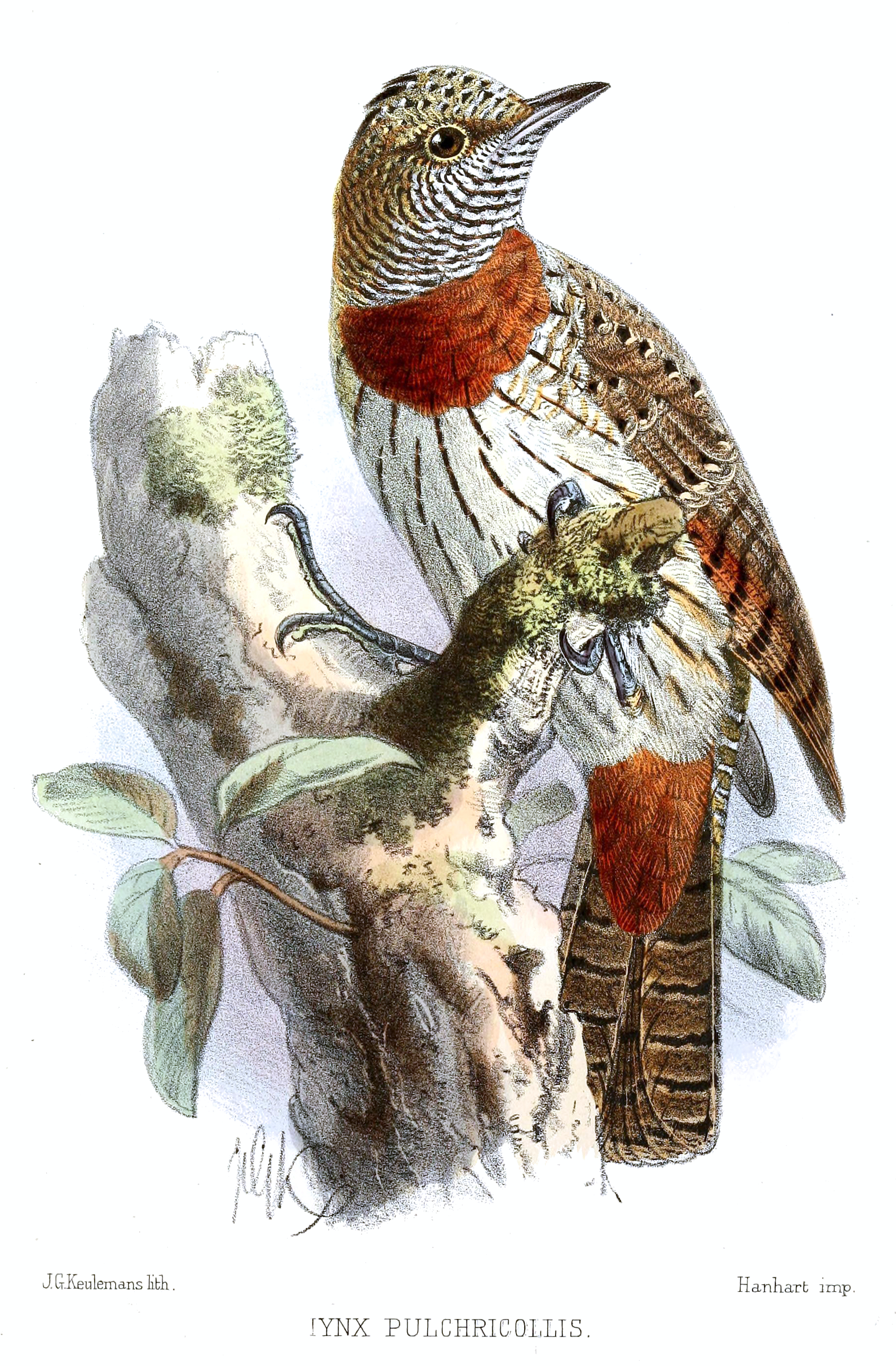 Jynx ruficollis pulchricollis